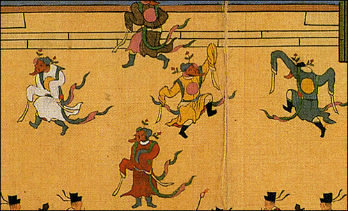 Cheoyongmu (처용무), or Obang Cheoyongmu (오방처용무) literally meaning "Dance of Cheoyong" or "Dance of Cheoyong from the five directions in Korean court dance. The picture is stored at Ho-Am Art Museum